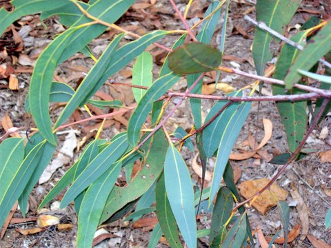 Corymbia exemia leaves at Galston Gorge NSW, Australia